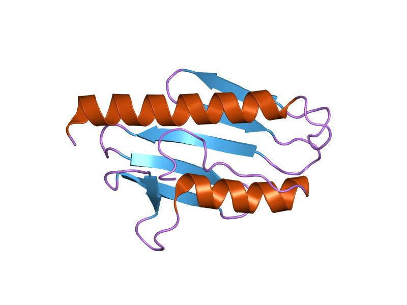 Cartoon representation of the molecular structure of protein registered with 1ekg code.